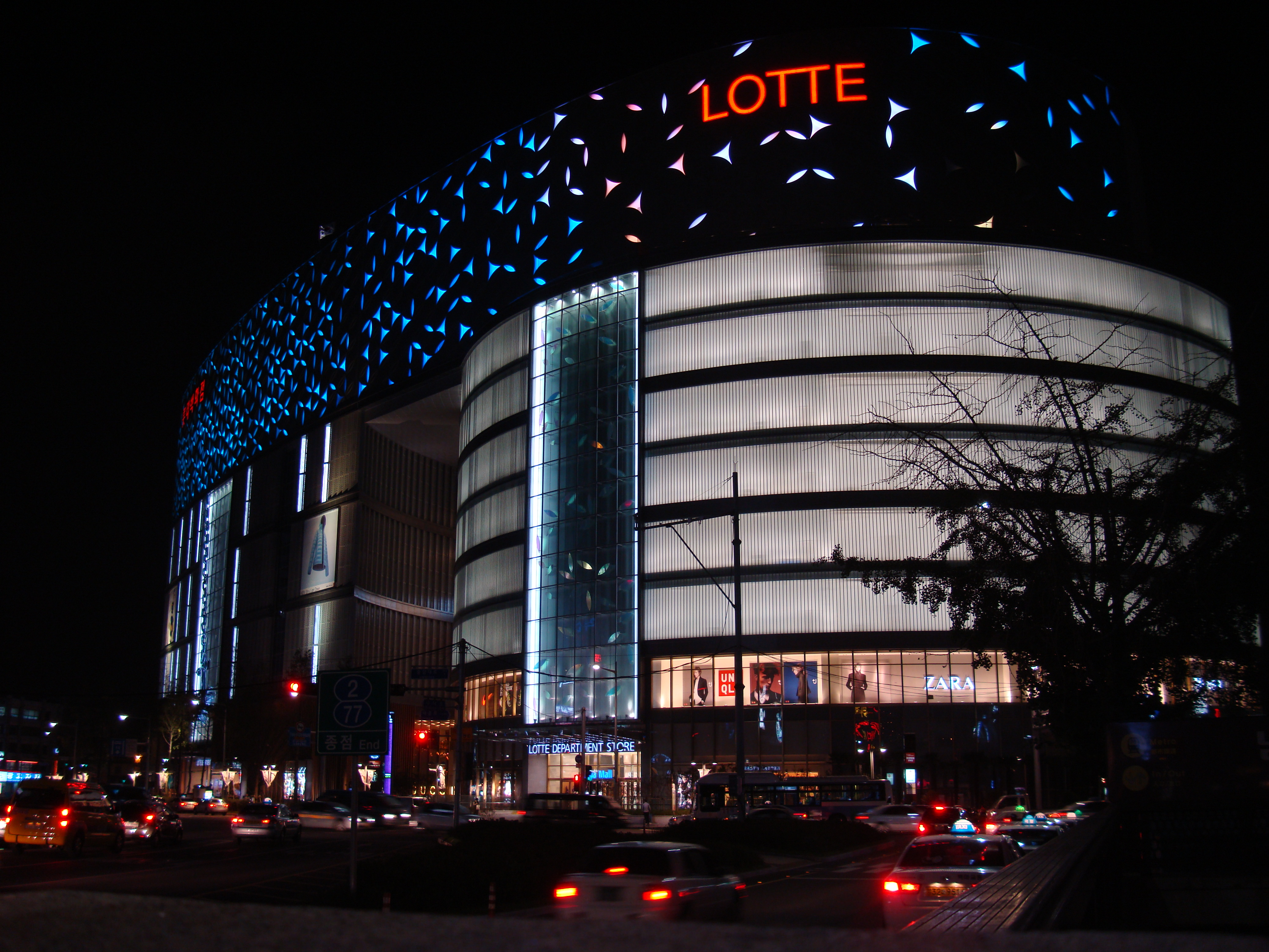 Lotte Department Store in Jung District, Busan, South Korea. Photograph from Flickr; author _Higher_; license of cc by 2.0.